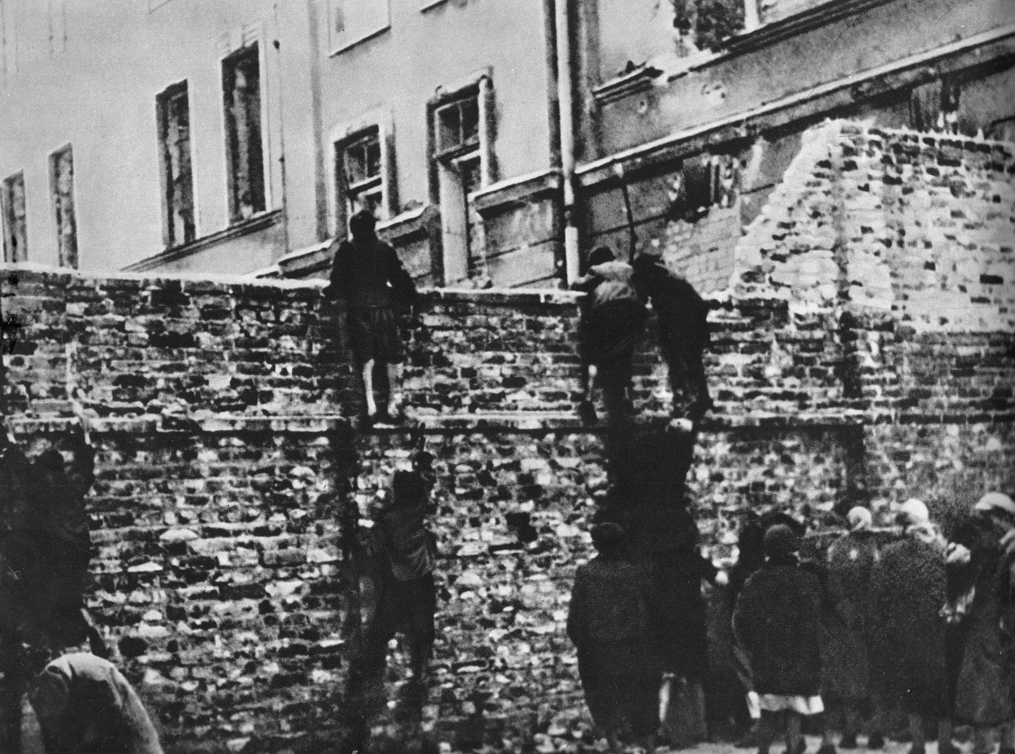 Warsaw Ghetto. Food smuggling